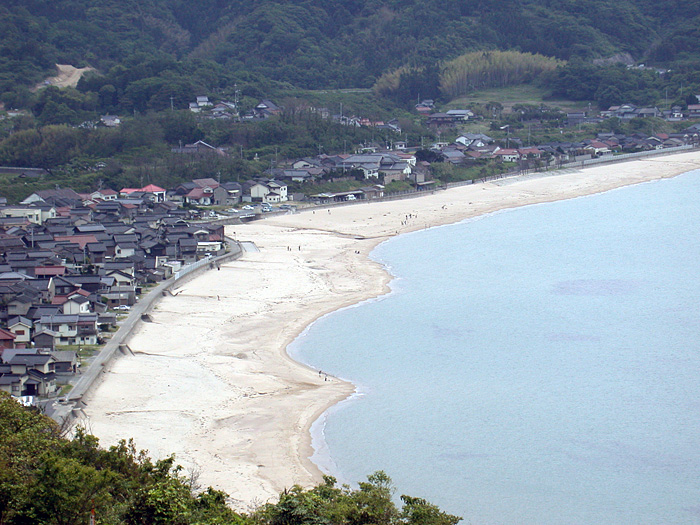 Majimachi, Nimacho, Ooda-shi, Shimane. The beach of singingsand, Kotogahama Beach.